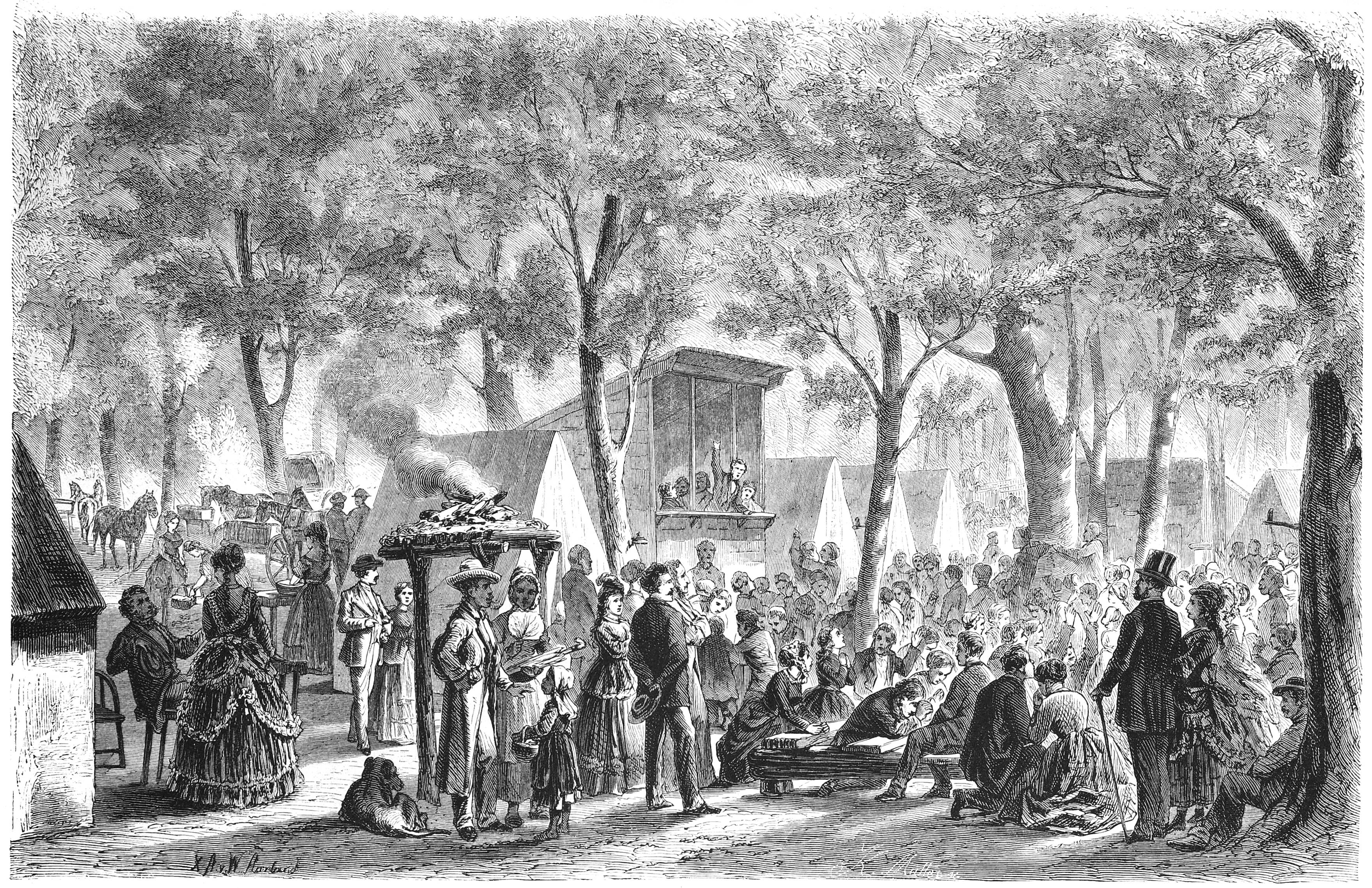 caption: "Ein Methodisten-Campmeeting. Nach der Natur aufgenommen von S. C. Allison."